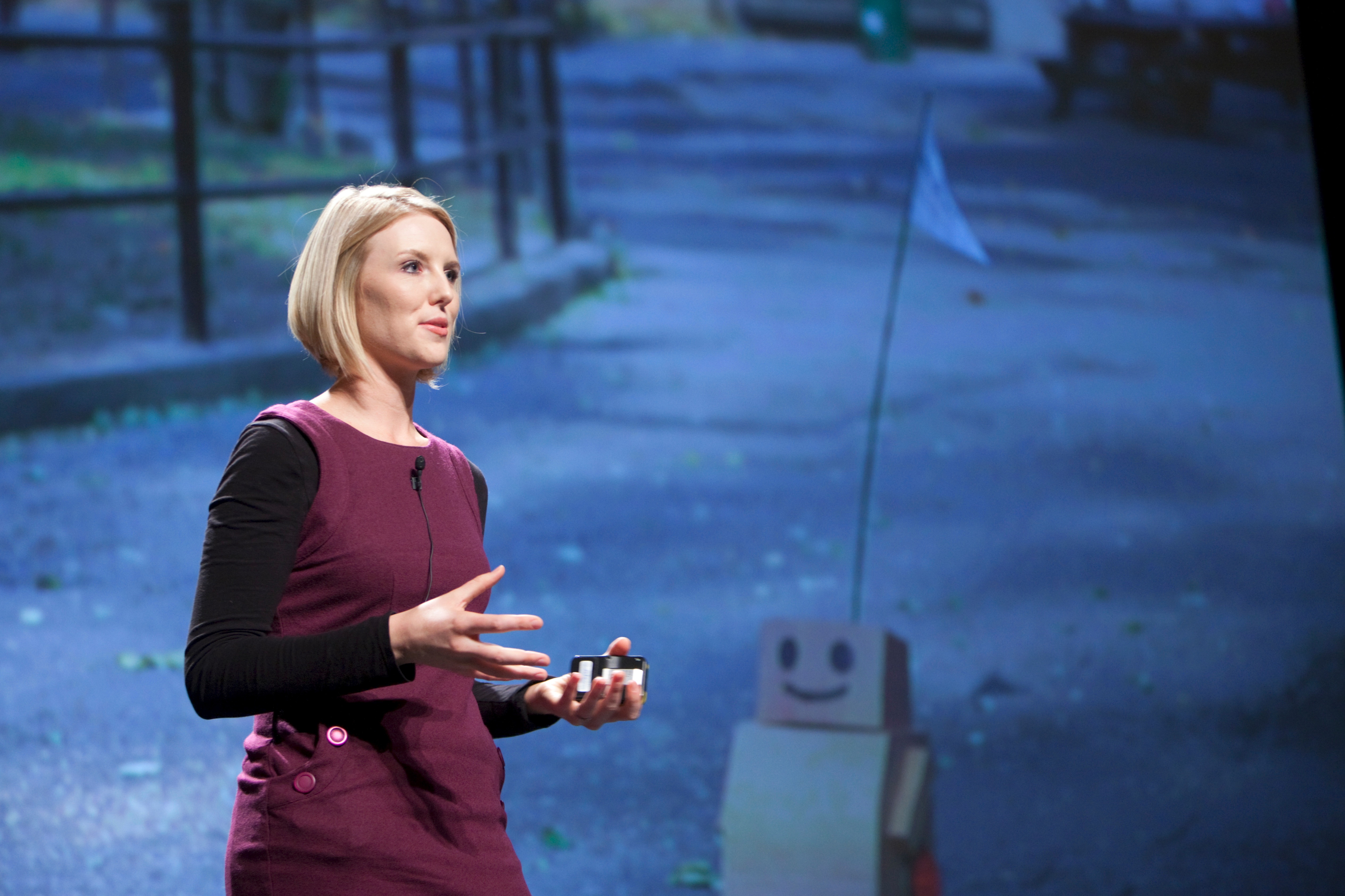 Photo by Kris Krüg for Pop!Tech 2009 - Camden, ME